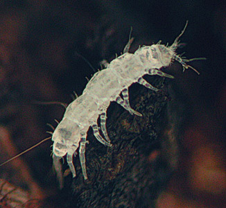 A species of the class Pauropoda